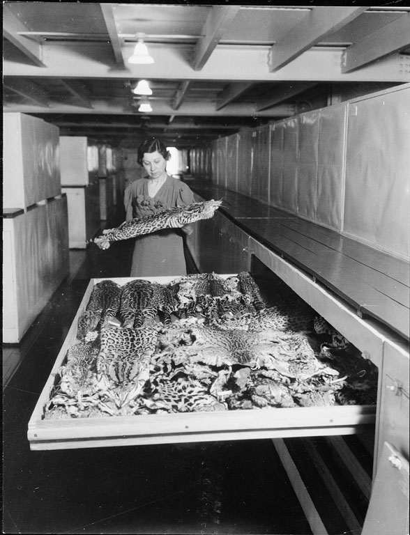 Photograph of Viola Shelly Schantz, who served as a Biological Aide, Biologist and Systematic Zoologist for the United States Fish and Wildlife Service from 1918 to 1961. In this photo, she surveys animal pelts from a storage drawer. Stationed at the Smithsonian throughout her career, she also served as the curator for the North American mammal collection in the National Museum of Natural History.